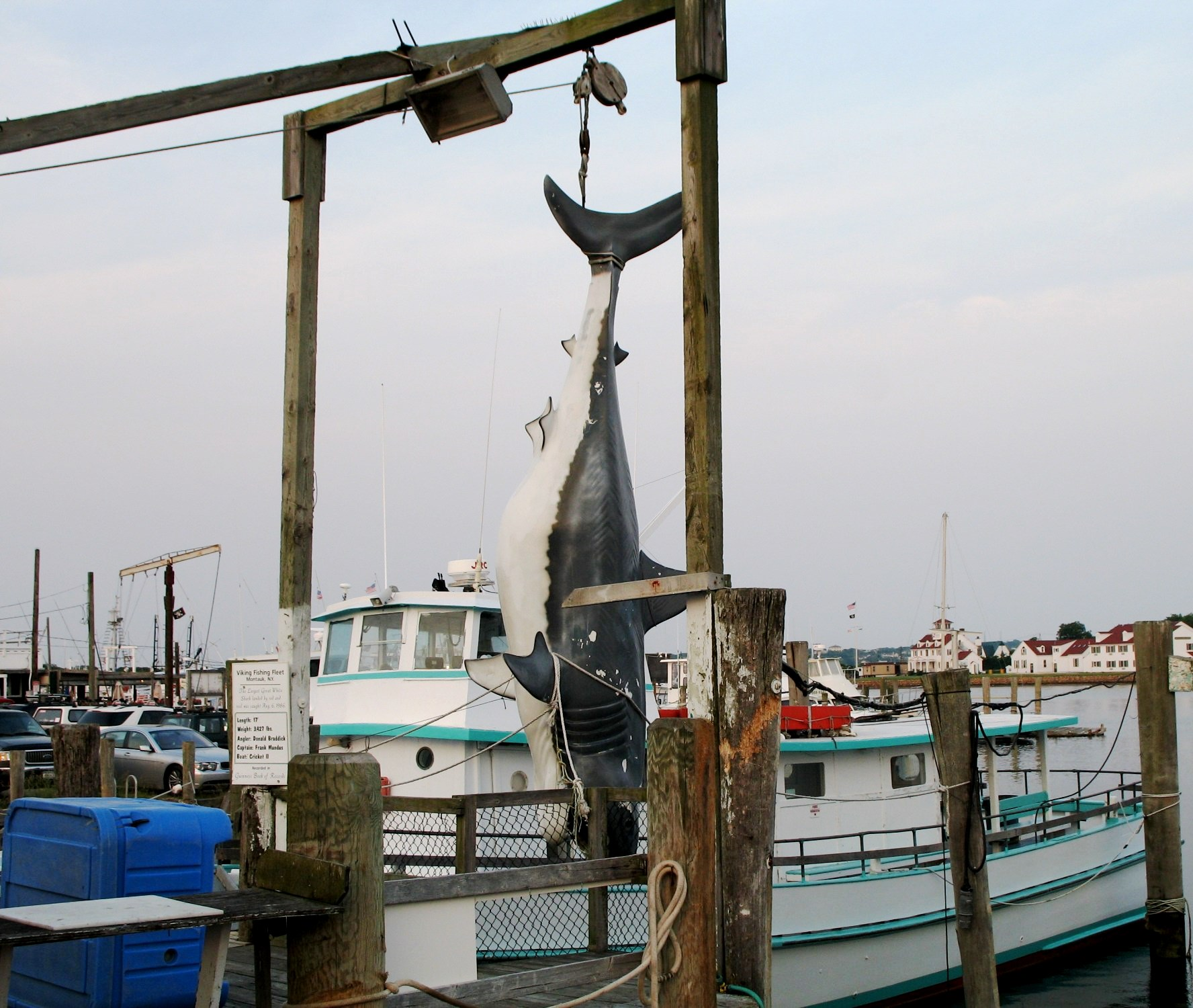 Fiberglass copy of 3,427 pound, 17 foot long Great White Shark caught by Donnie Braddick and Frank Mundus on August 6, 1986. It is on Lake Montauk. It is claimed to be the biggest shark caught by rod and reel. Photo by poster in June 2007.